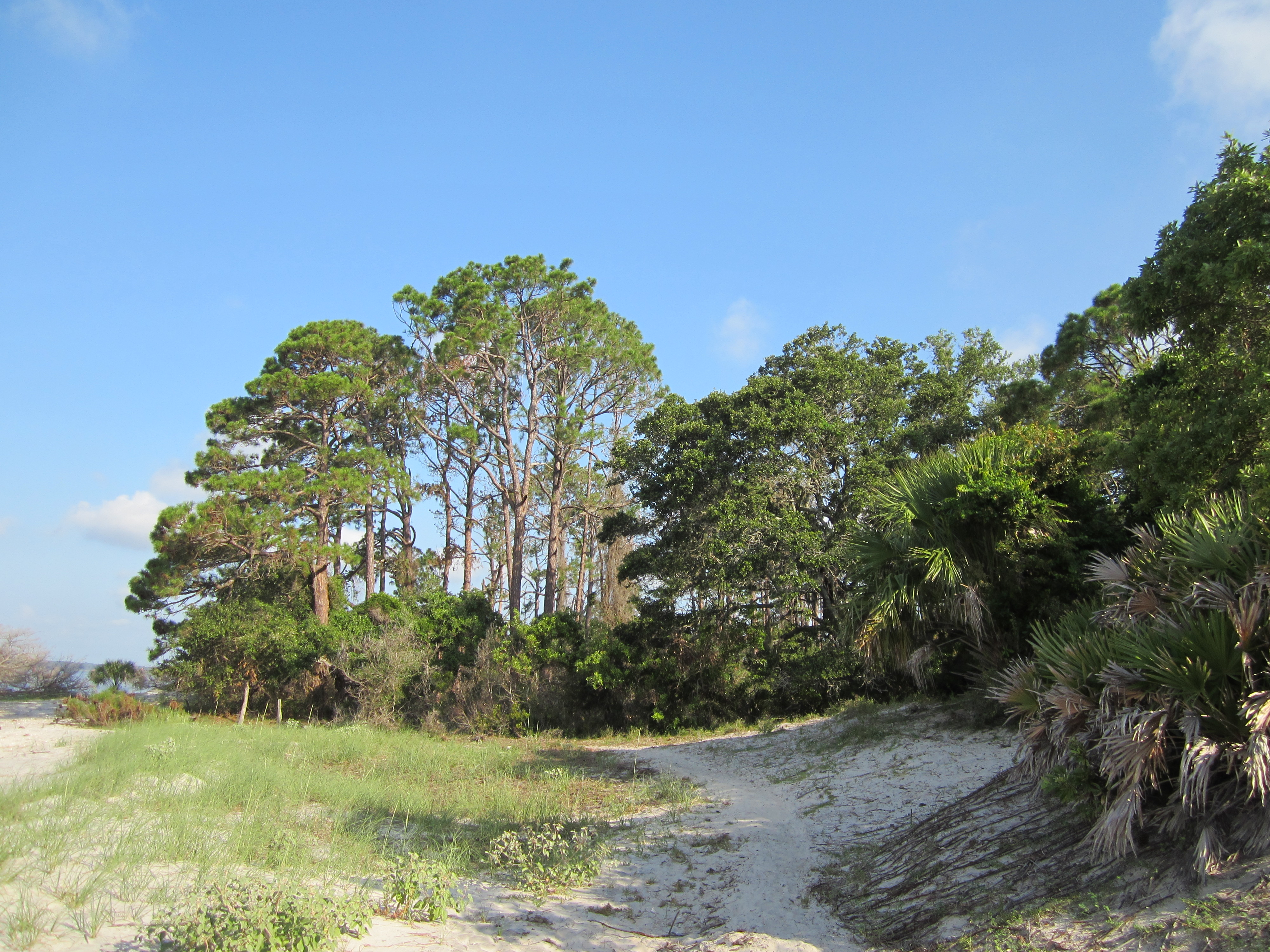 Photo taken of a section of South End Trail in Cumberland Island National Seashore. The trail was resurfaced by a Student Conservation Association National Crew in June 2018.